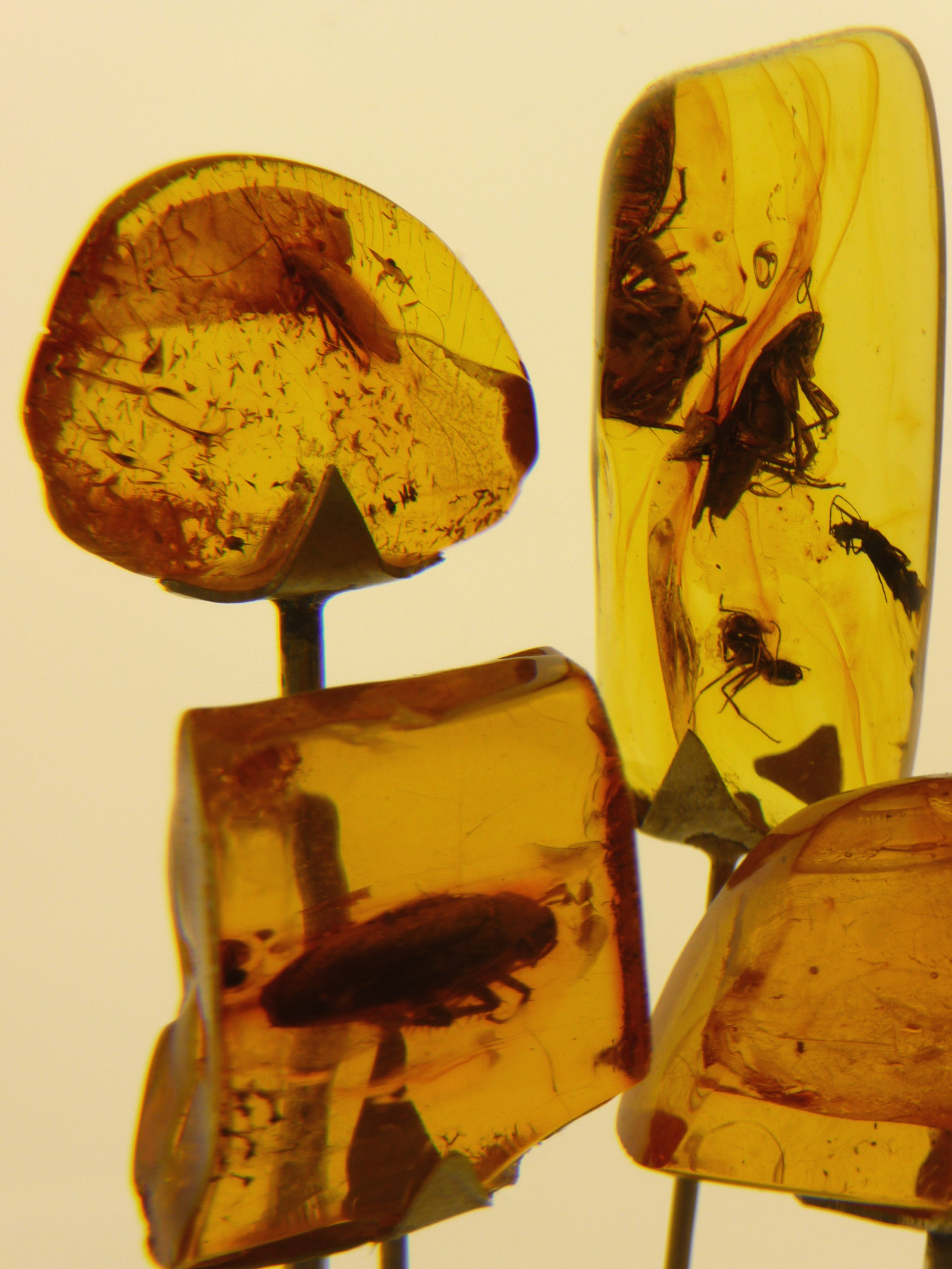 Amber with inclusions (insects) in Amber Museum of Tiškevičiai Palace, Palanga (Lithuania)